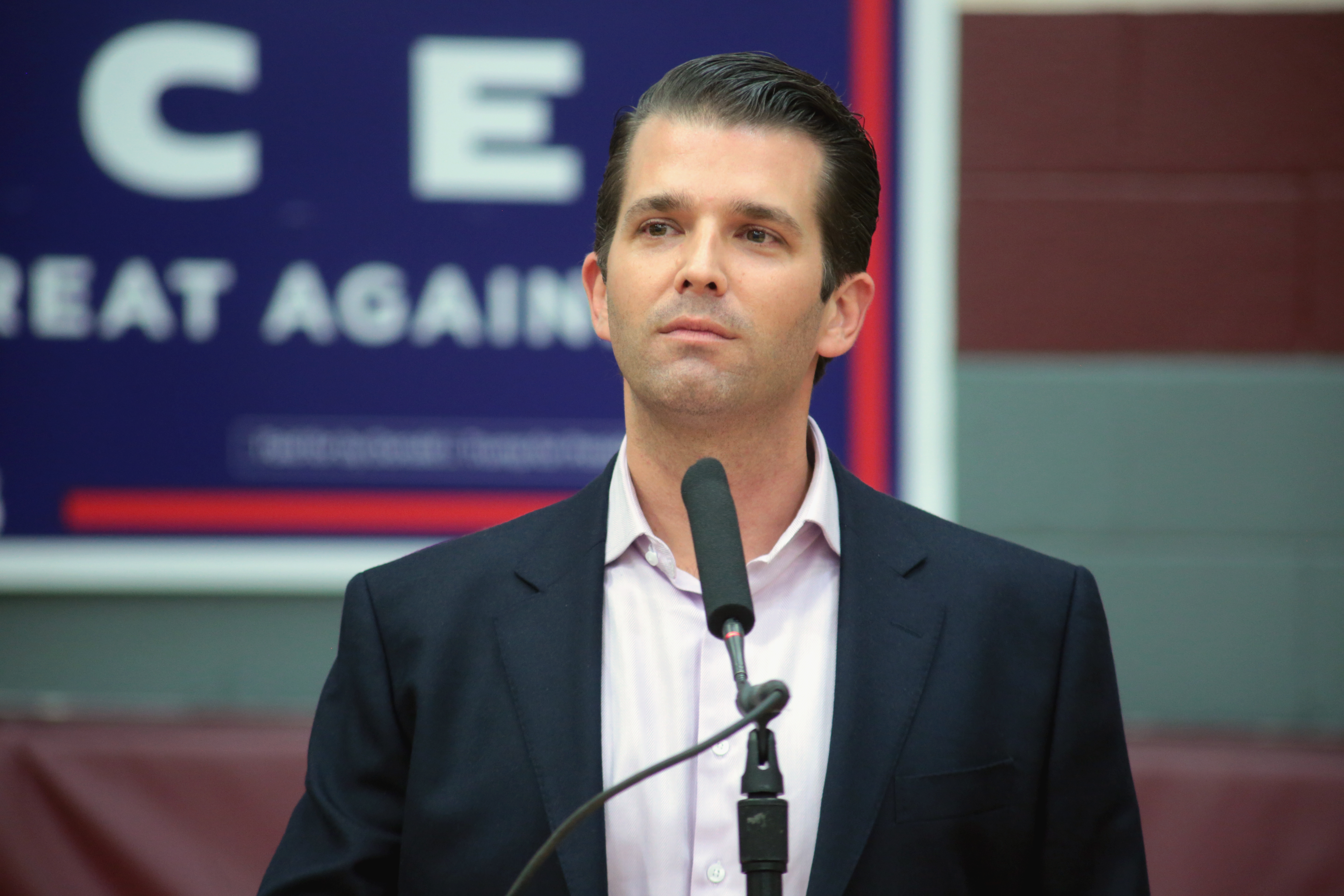 Donald Trump, Jr. speaking with supporters of his father, Donald Trump, at a campaign rally at the Sun Devil Fitness Center at Arizona State University in Tempe, Arizona.